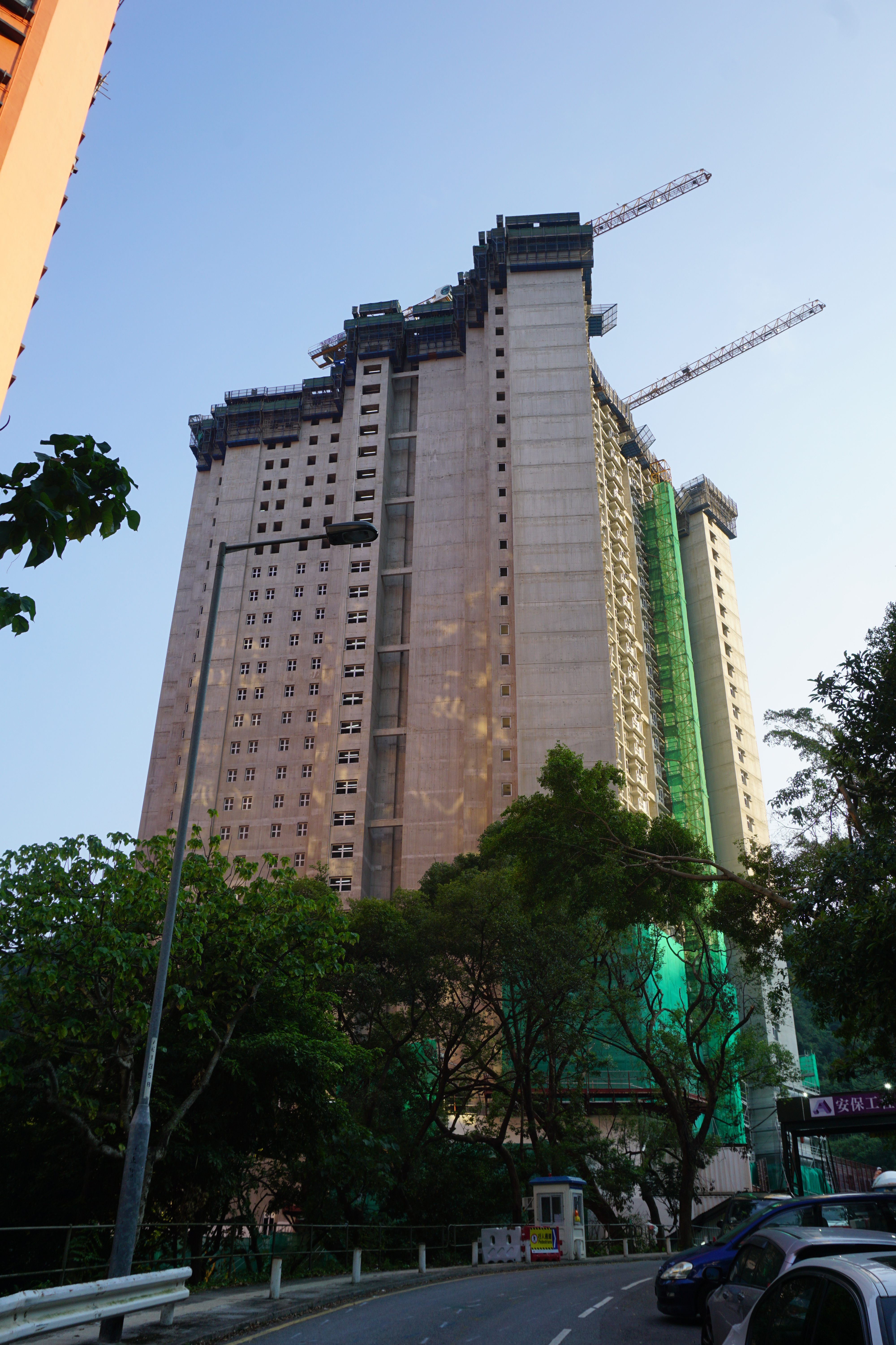 Choi Wo Court in Fo Tan, Hong Kong.